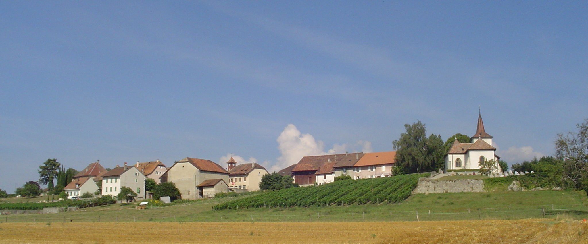 Picture of Colombier (VD), Switzerland